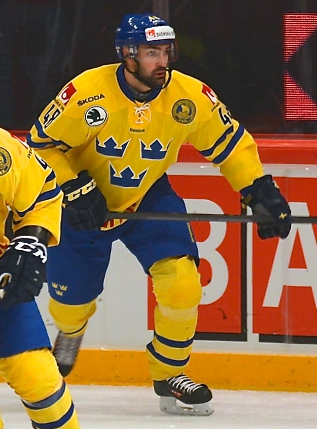 Daniel Rahimi during Oddset Hockey Games against Russia (2-0) at the Ericsson Globe in Stockholm on May 4th, 2014.